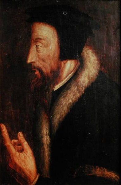 Anonymous 16th century portrait of Calvin. (Front cover Cottret, Bernard (2000), Calvin: A Biography, Grand Rapids, Michigan: Wm. B. Eerdmans)